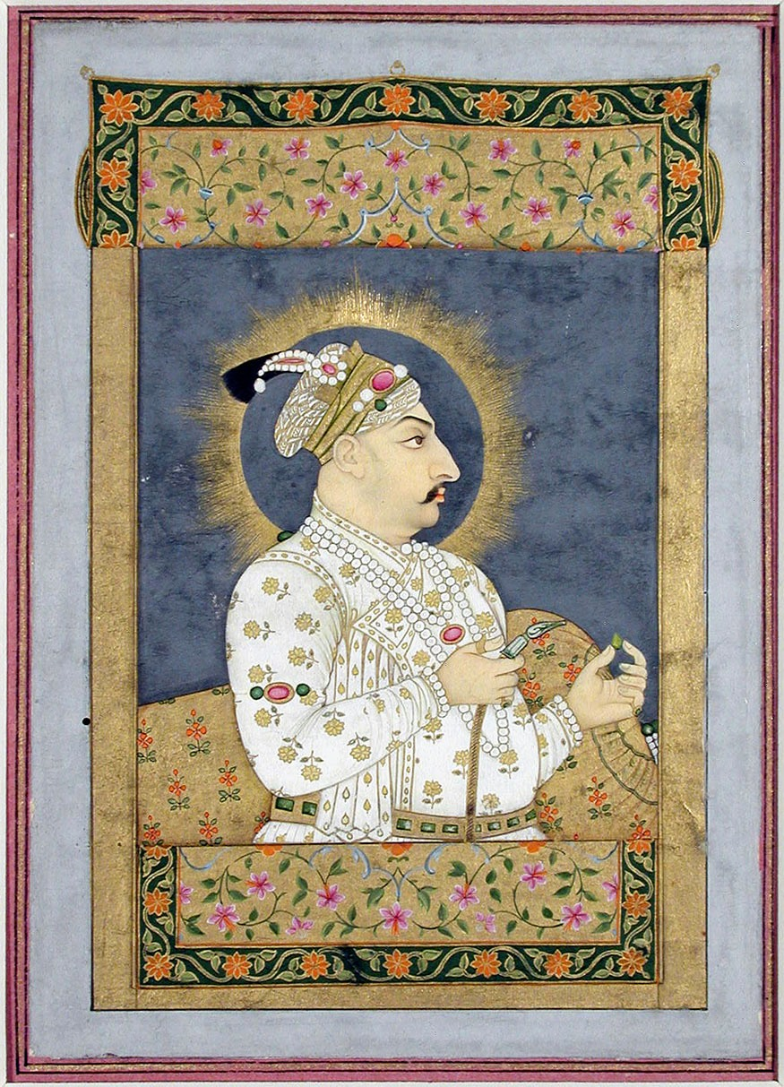 Nidha Mal Jharokha portrait of Muhammad Shah holding an emerald and the mouthpiece of a huqqa ca. 1730 The San Diego Museum of Art